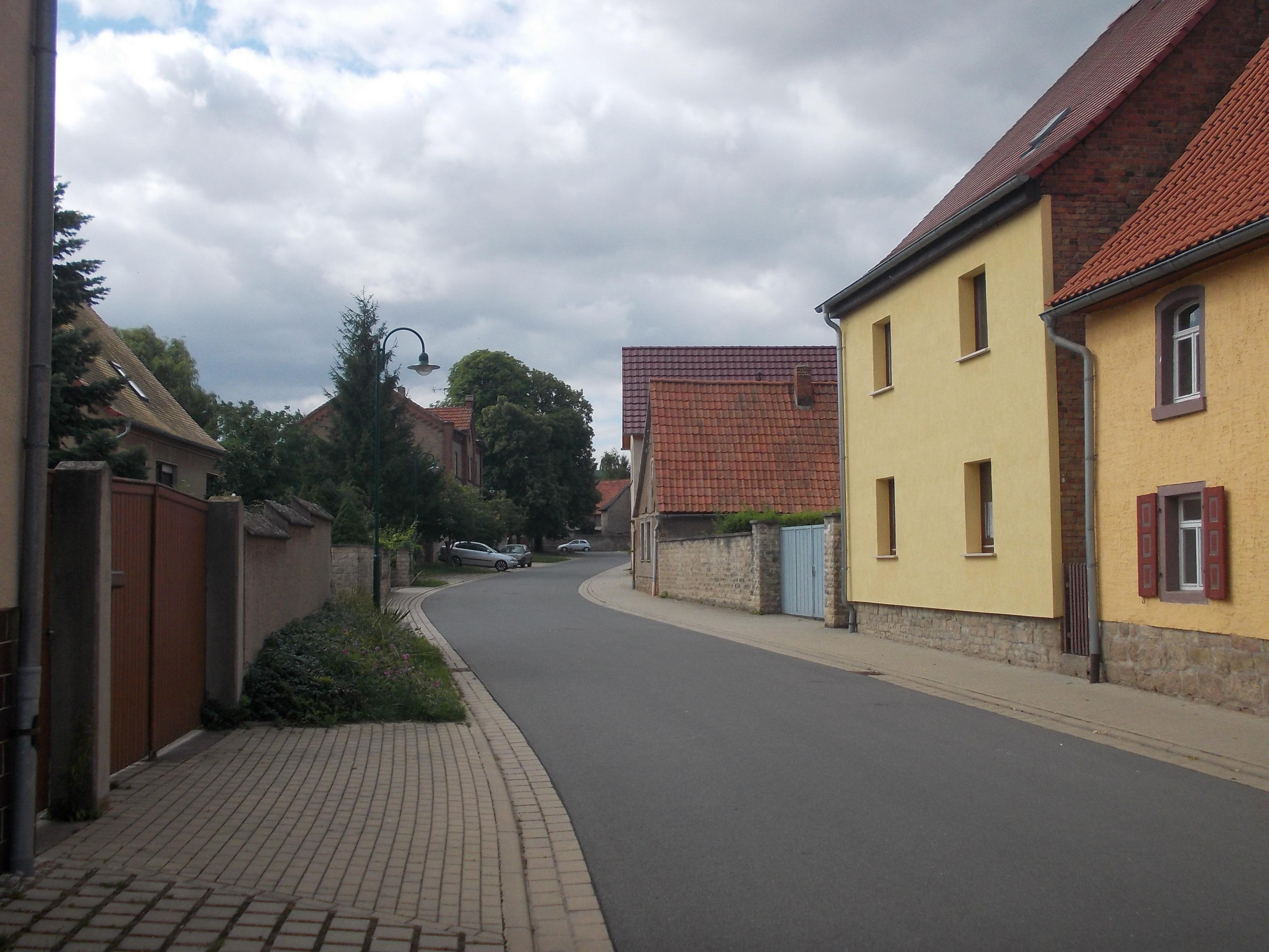 Lindenstrasse in Allerstedt (Kaiserpfalz, district: Burgenlandkreis, Saxony-Anhalt)